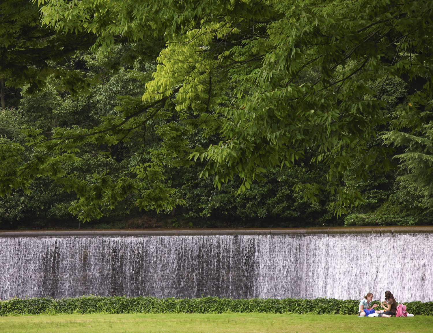 Kanazawa, Ishikawa Prefecture, Japan The Cascade in Central Park (中央公園 Chūō Kōen) is a perfect spot for a picnic lunch on a summer day